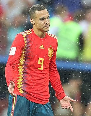 Rodrigo at the 2018 FIFA World Cup